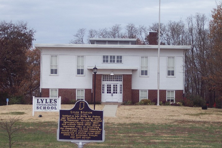 Taken by Kurt Weber (User:Kmweber) on November 5, 2006